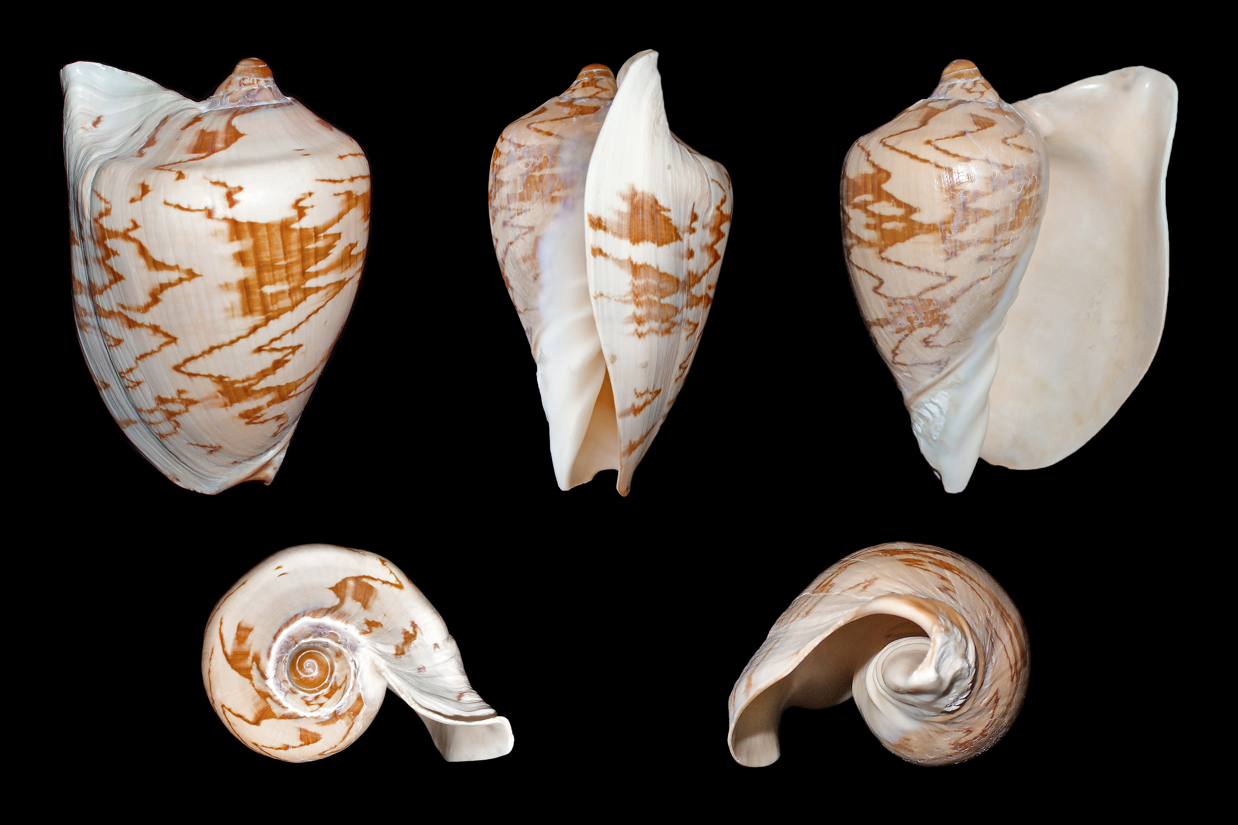 Noble Volute, length 15 cm, originating from South China Sea. Own collection, therefore not geocoded.